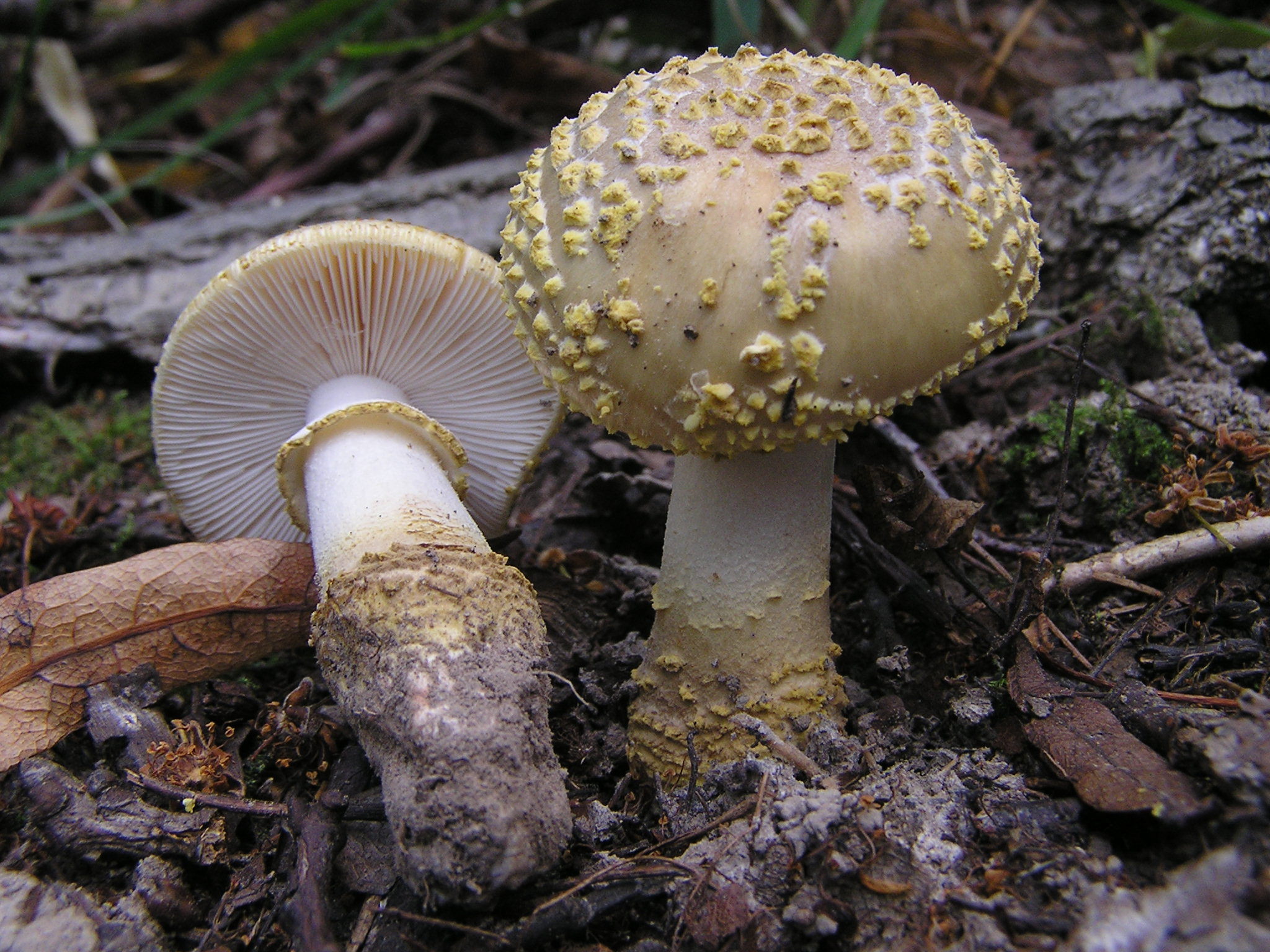 Amanita franchetii (Boud.) Fayod Location: Craula, Hainich, Thüringia, Germany For more information about this, see the observation page at Mushroom Observer.